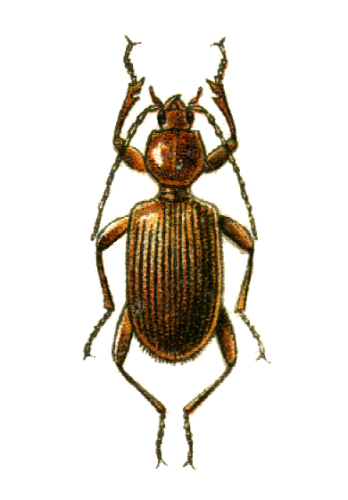 Ground beetle Apotomus testaceus (Carabidae: Apotominae).